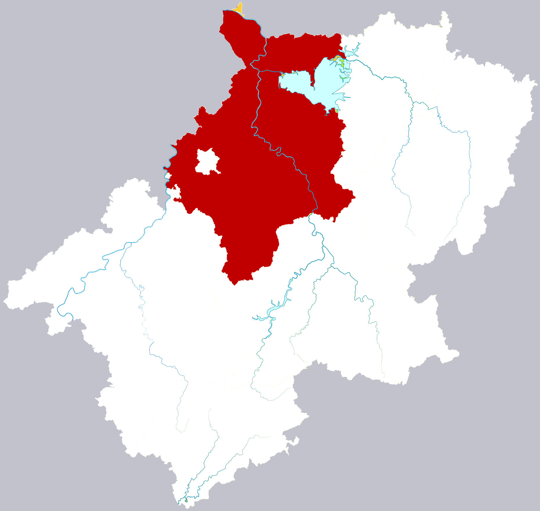 Location of Xuanzhou district in Xuancheng city, China